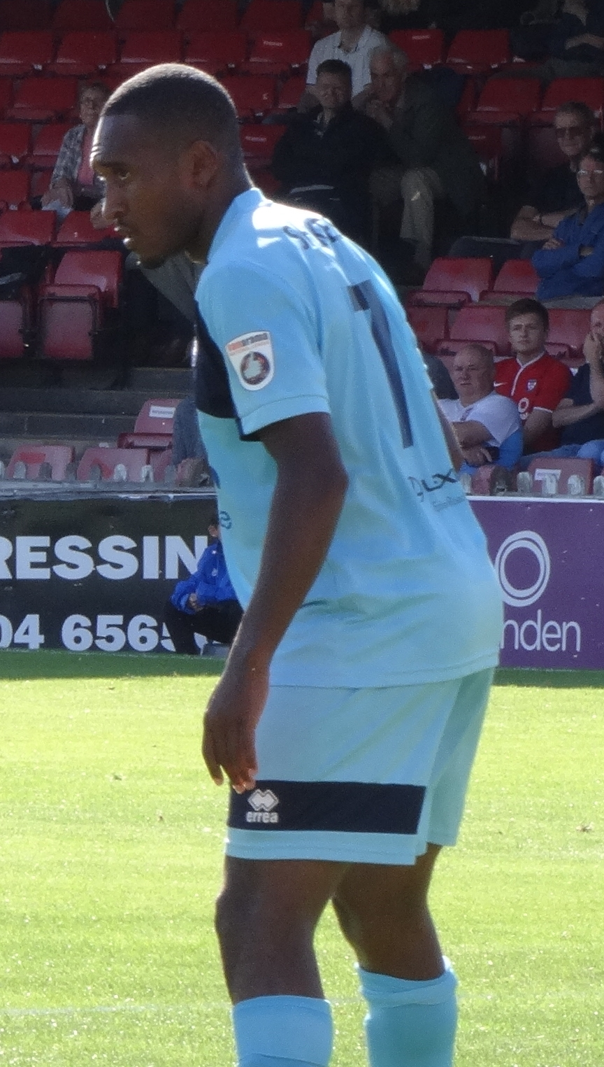 Ricky Shakes playing for Boreham Wood against York City at Bootham Crescent, York on 13 August 2016